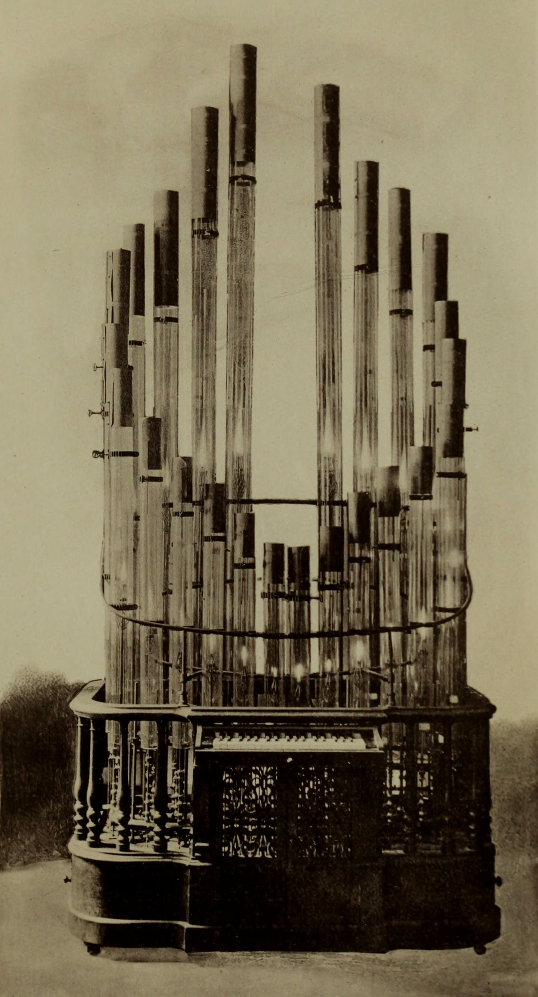 Pyrophone of Georges Frédéric Eugène Kastner (1852–1882).